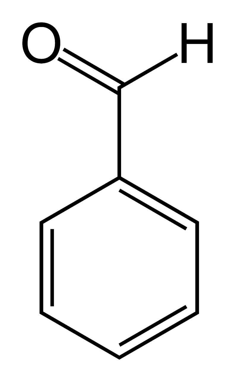 molecule of benzaldehyde